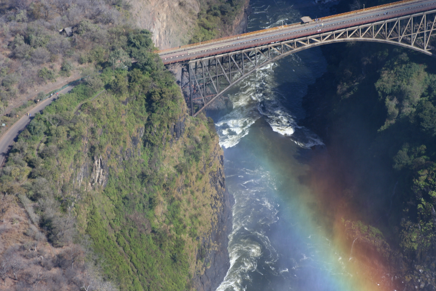 Victoria Falls